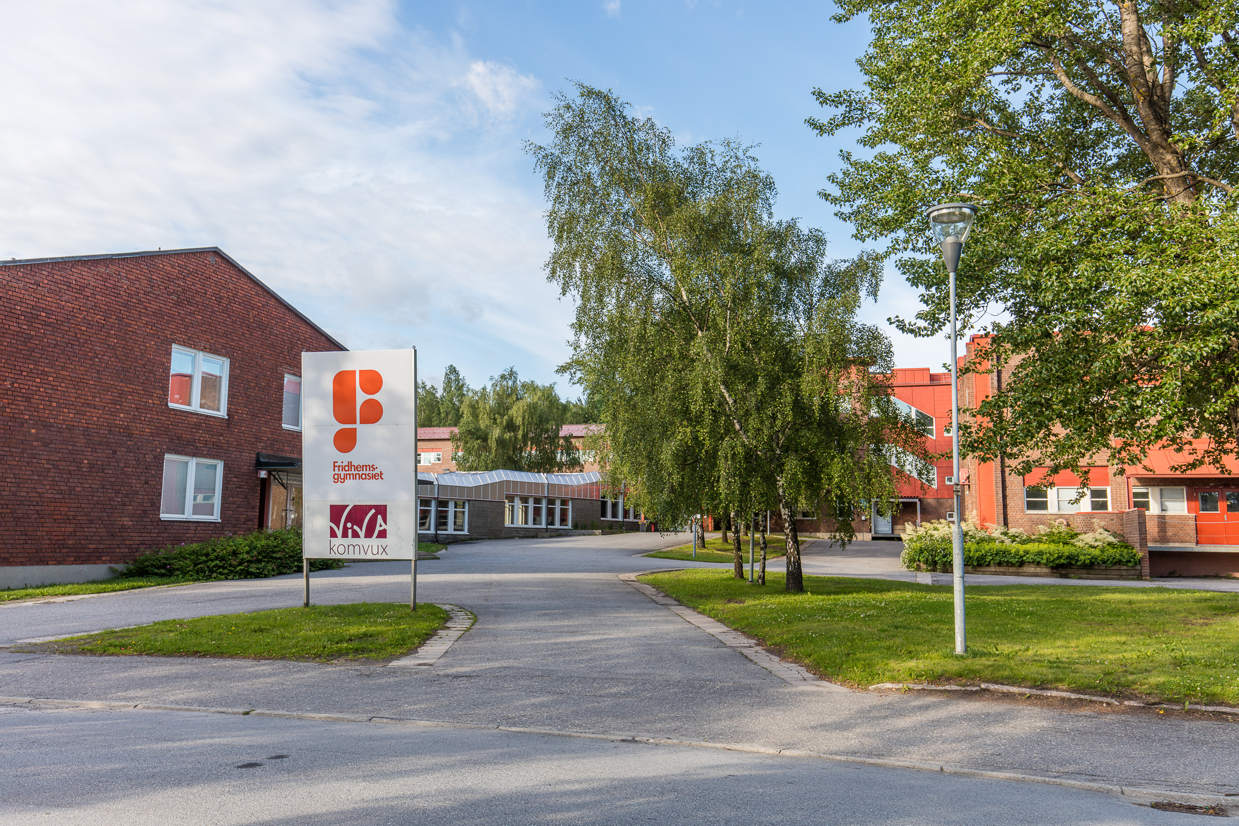 Fridhemsgymnasiet (formerly Östra gymnasiet) is the second largest gymnasium in Umeå.